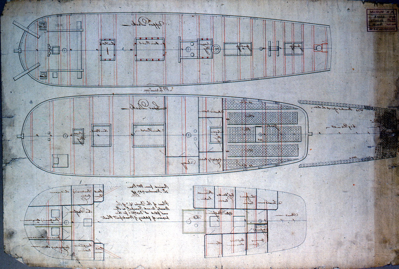 Bounty (ex-'Bethia') Deck plans - upper deck, lower deck and hold - of the 'Bounty' (ex-'Bethia'), including the disposition for carrying breadfruit plants in pots in the great cabin and other accommodation; dated 'Received...20th November 1787'. This reference (ZAZ6668) in fact comprises a set of drawings not as yet distinguished by part numbers of which the most up-to-date electronic image references are as follows; J2027 – External sheer (starboard broadside)and profile J2028 – Internal sheer and profile (i.e. it also shows the breadfruit plant racks and companionways in red) [old image D3970-1] J2029 – An explanatory keyed detail of the plan arrangements for plants, in section and profile as above J2030 –Upper, middle and lower deck plans without plant racks ut with the cabin marked as 'Garden' [old image D3970-2] J2031– Upper middle and lower deck plans as fitted with plant racks for 629 pots [old image D3970-3] Note that J2032 is also a dyeline copy draught of the 'Bounty' launch plans (not yet cataloged on the system but ref. no ZAZ8748). It is an enlarged but otherwise identical copy of the the engraving by Mackenzie originally published in Bligh's published account of the 'Bounty' voyage ('A Voyage to the South Sea...', 1792). Deck Plan of the Bounty